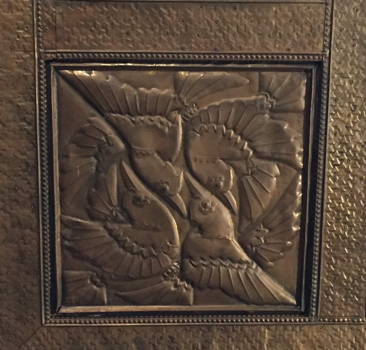 Neuchâtel, State Observatory, Pavillon Hirsch, hall, panel with birds